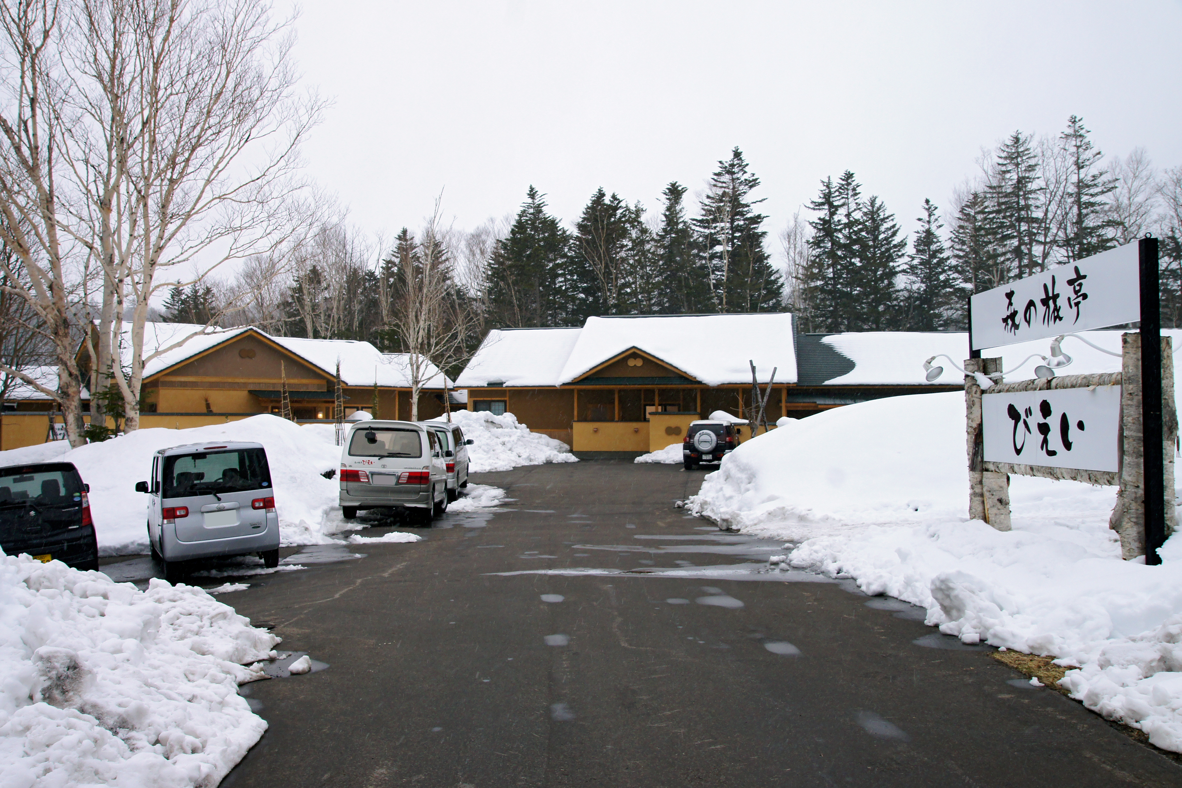 Ryokan "Mori-no-ryotei-Biei" in Shirogane Onsen, Biei, Hokkaido prefecture, Japan.